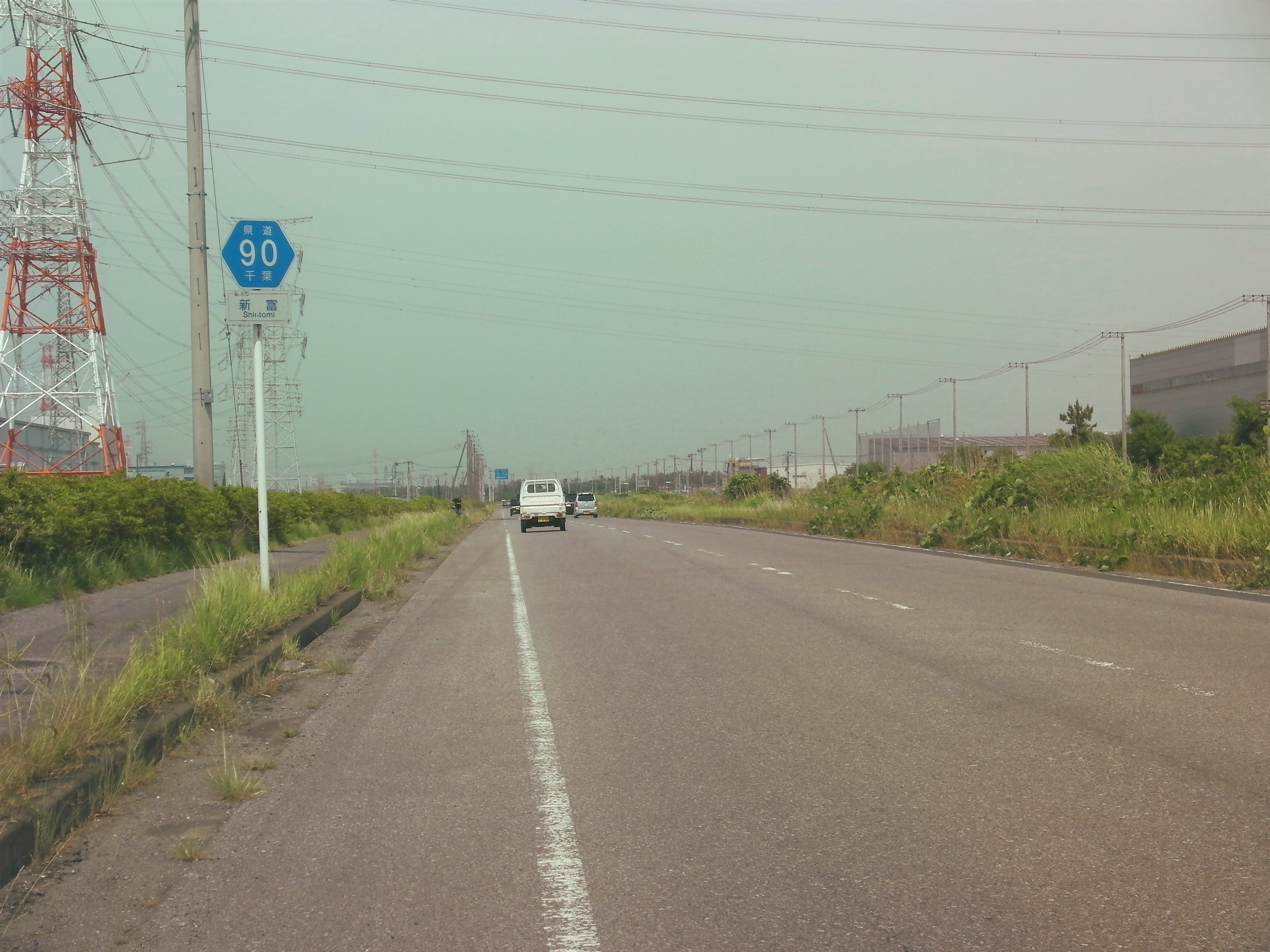 Chiba prefectural road route 90